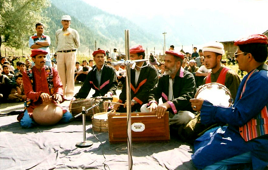 This is the photo of Habba Khatoon Dramatic club, performing a Shina Song at a local function in Gurez.